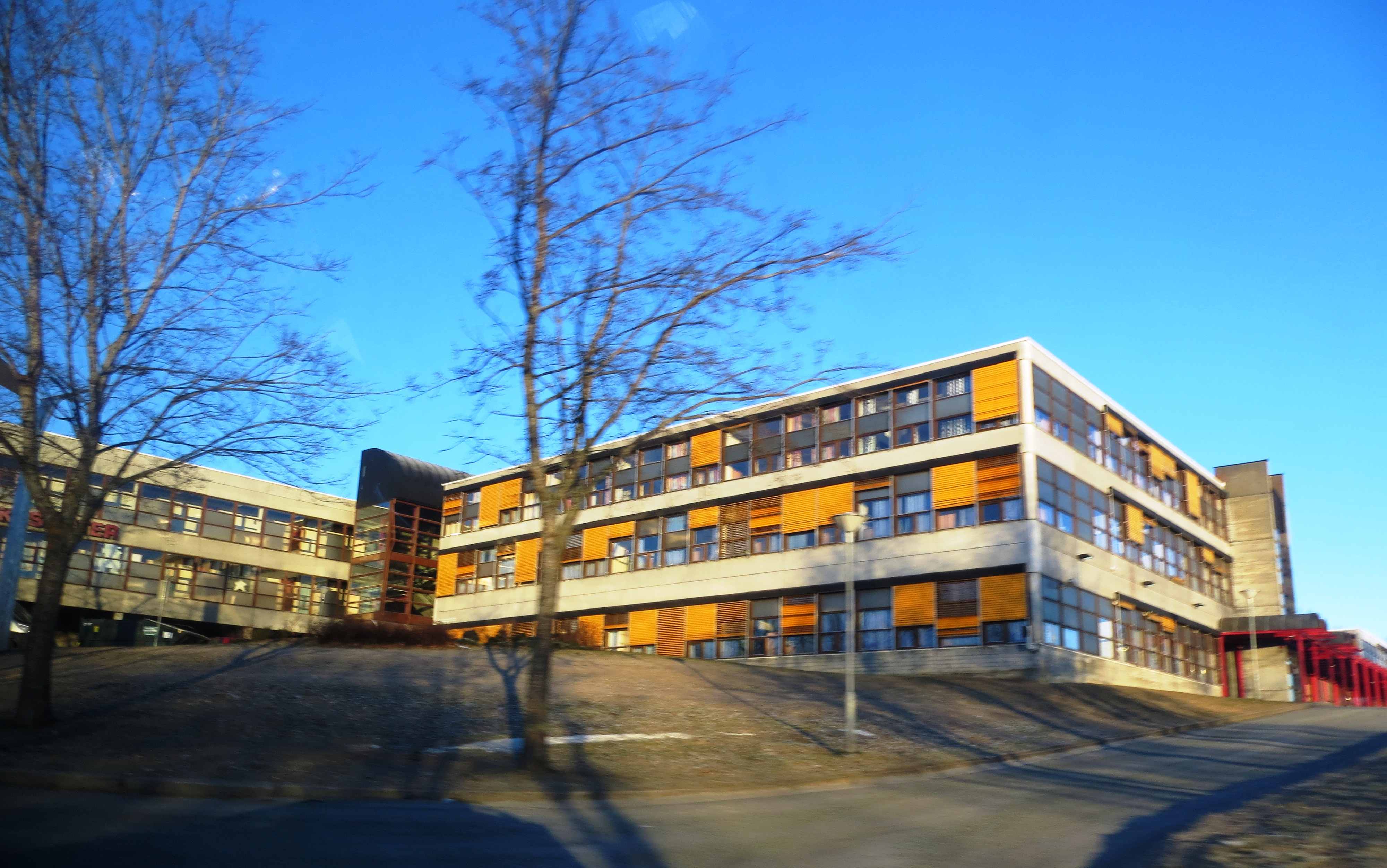 Marintek at Tyholt, trondheim (Norway). This maritime research institute is jointly owned by Sintef, Norwegian Shipowners, and minor interests. Marintek is a leading maritime research facility. The first two floors of this building also houses the Maritime Institute of the Norwegian University of Technology and Science (NTNU). The campus is named "NTNU Tyholt", or simply "Marin".